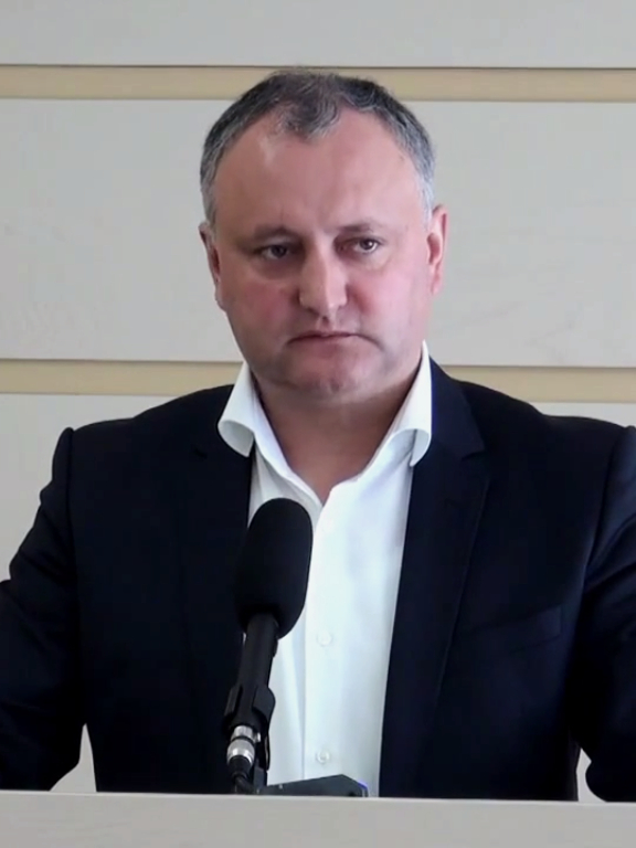 Moldovan politician and leader of the Party of Socialists of the Republic of Moldova Igor Dodon